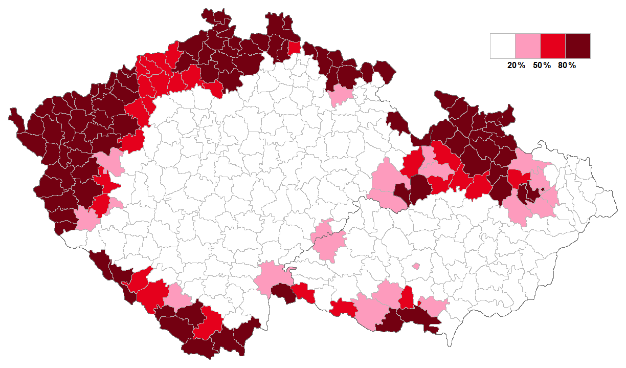 The percentage of the German population in the judicial districts according to the census of 1930